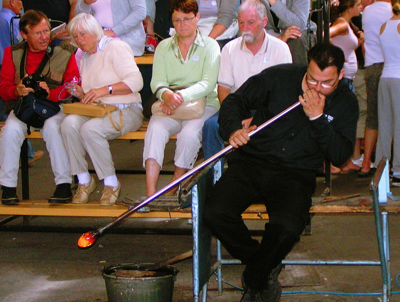 Glassblower in the visitor centre in Kosta glasbruk in the center of The Kingdom of Crystal, Småland, Sweden